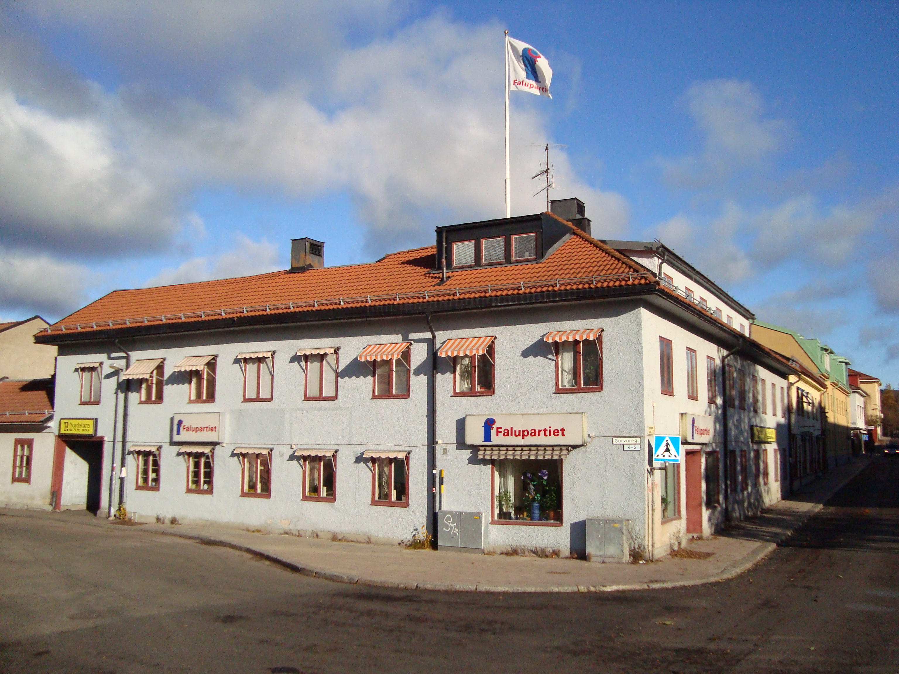 Quarters of political party Falupartiet, Falun, Sweden.